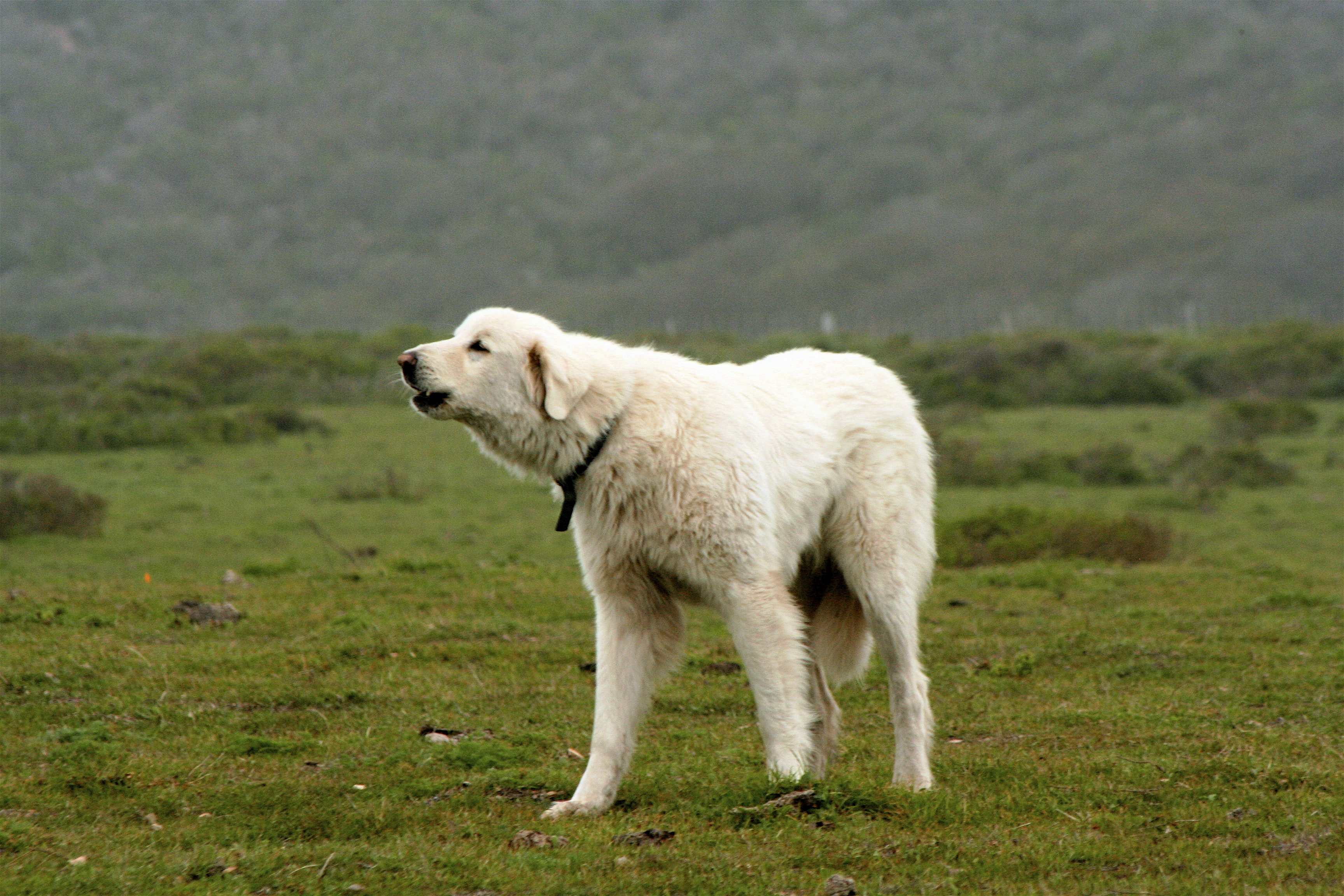 Turkish Akbash, livestock guardian dog